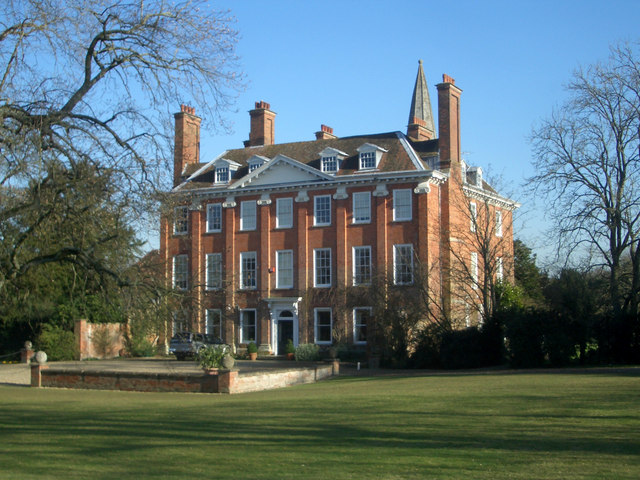 Welford Park House., near to Welford, West Berkshire, Great Britain.